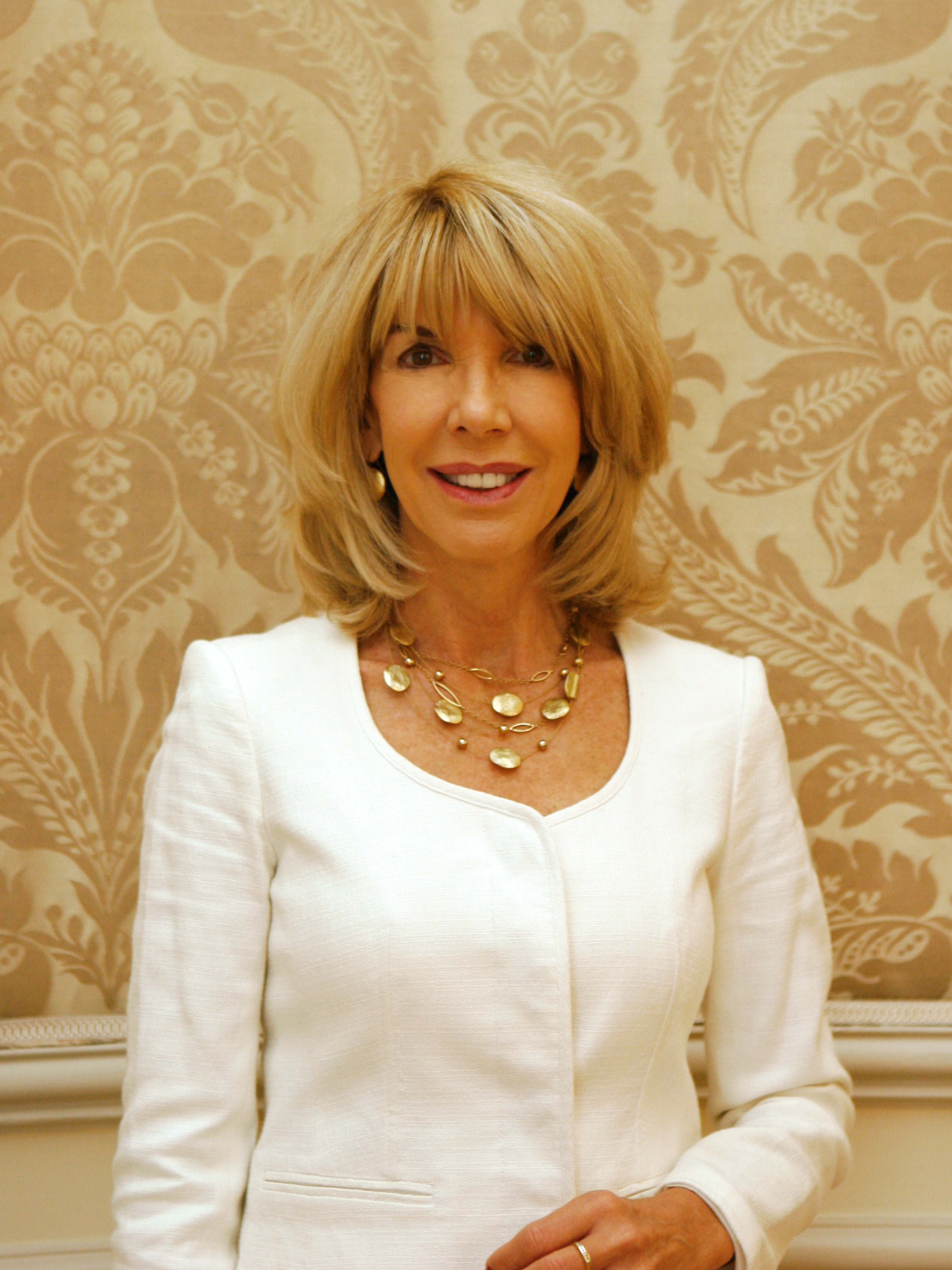 Ambassador O'Brien at the Embassy of Ireland, Paris